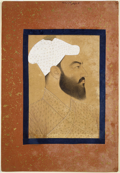 Bahadur Shah I was the Mughal emperor from 1707-1712.